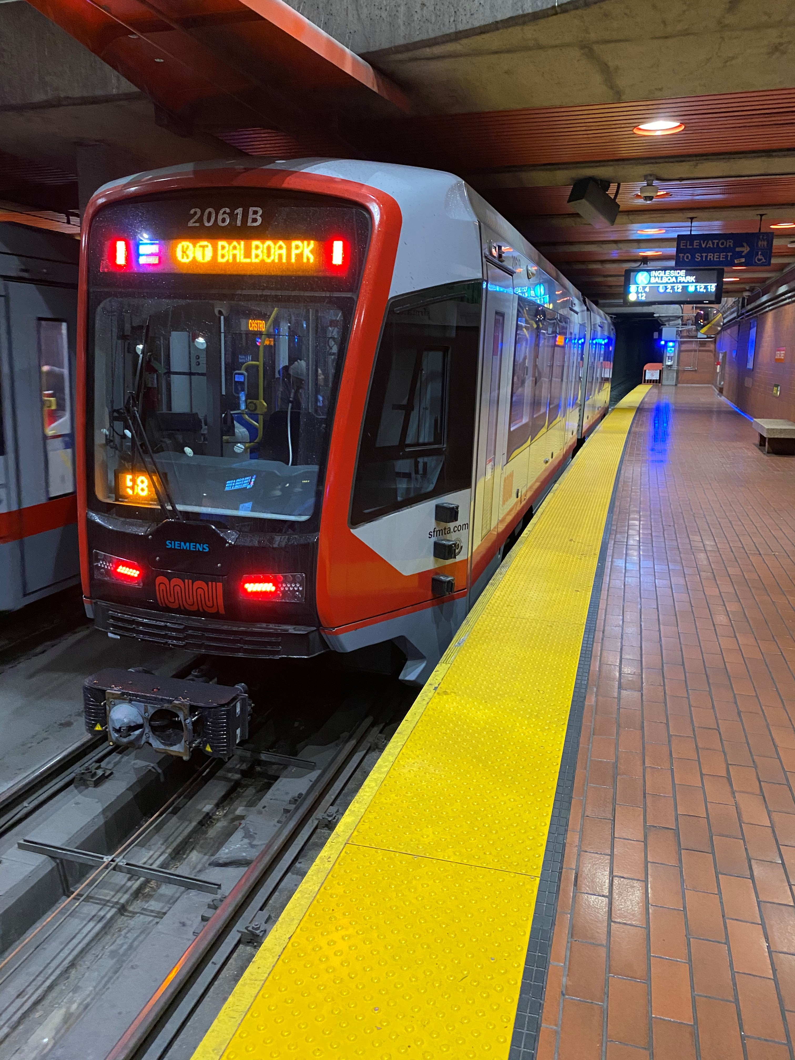 A new Siemens San Francisco MUNI streetcar at Castro Station